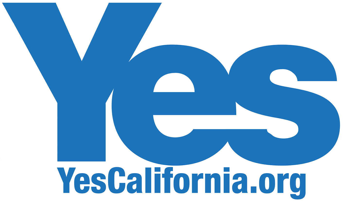 Yes California logo